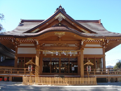 michinobehachimanguu-haiden